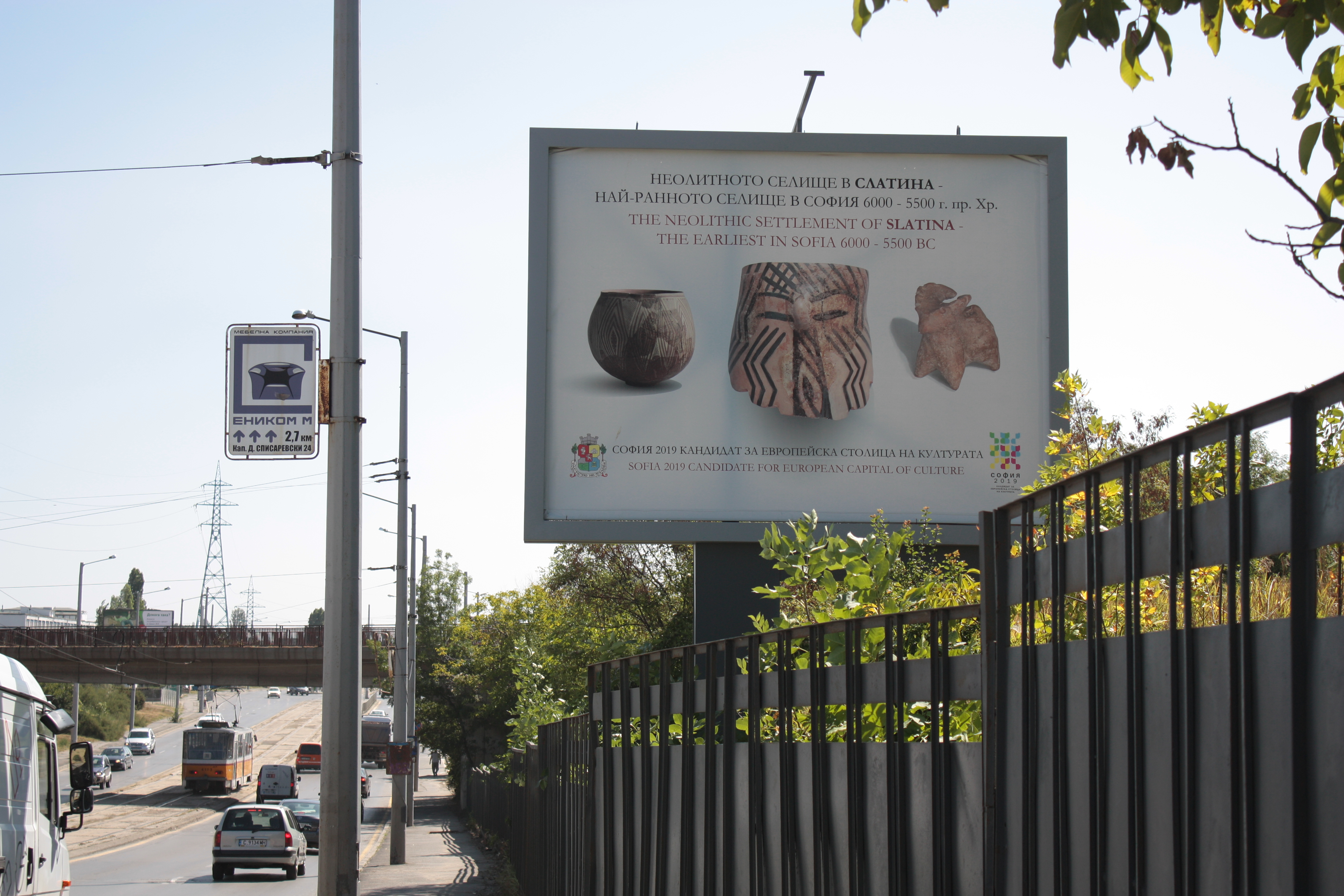 Neolithic site in Slatina, bul. Shipchenski prohod, Sofia, Bulgaria